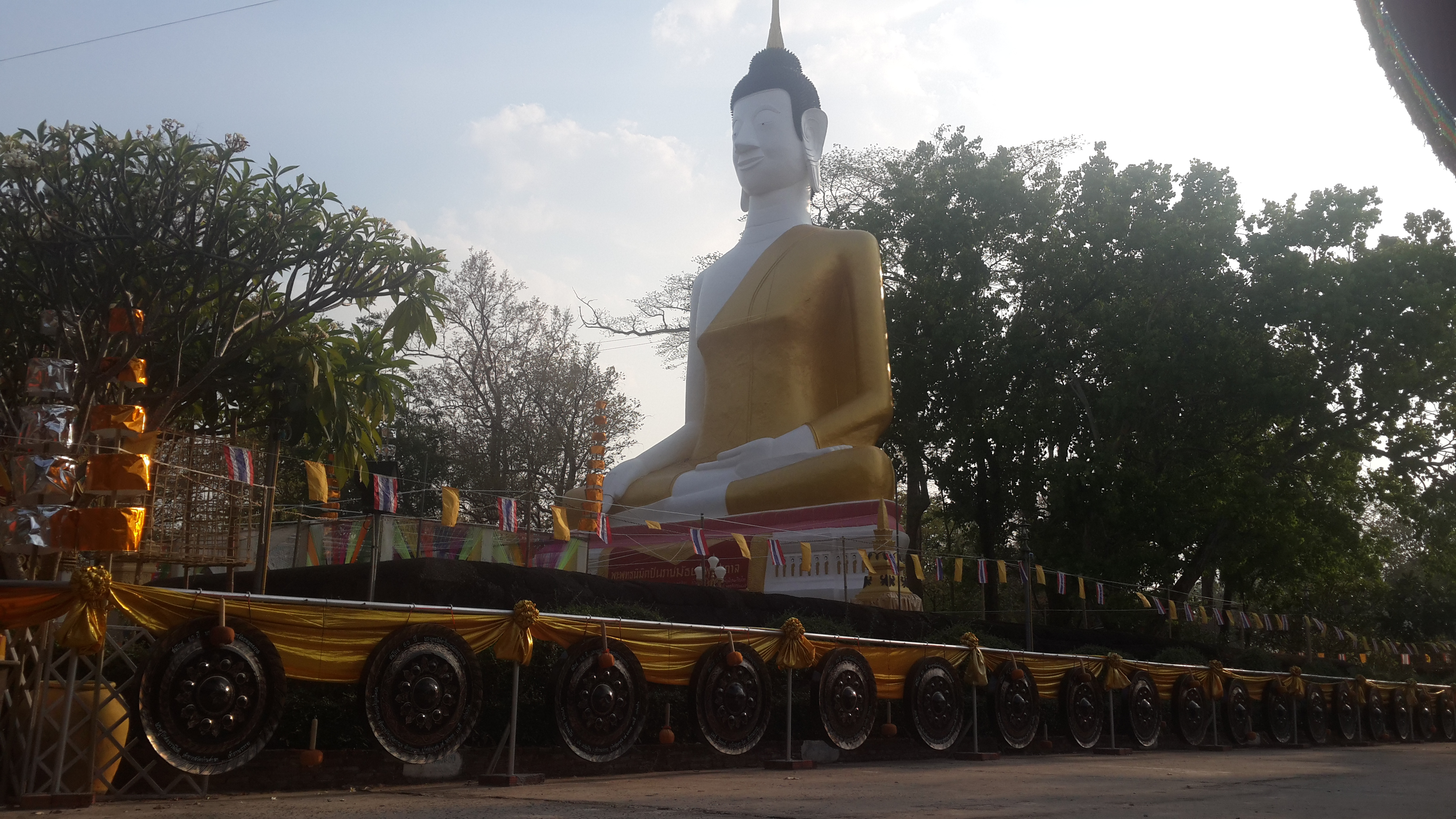 cultural heritage monuments in Thailand